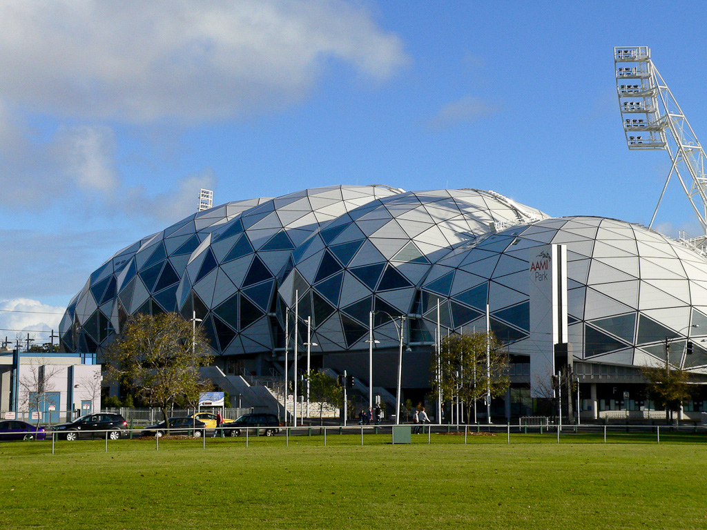 2/07/2010 - soccerball stadium The newly built AAMI Park at the Melbourne Sports and Entertainment Precinct.